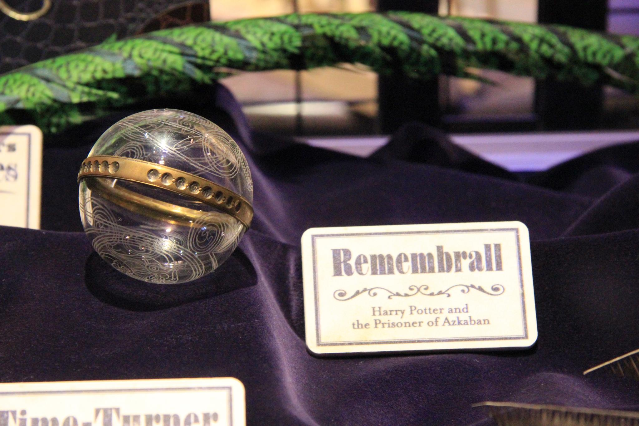 Warner Bros. Studio Tour London: The Making of Harry Potter.